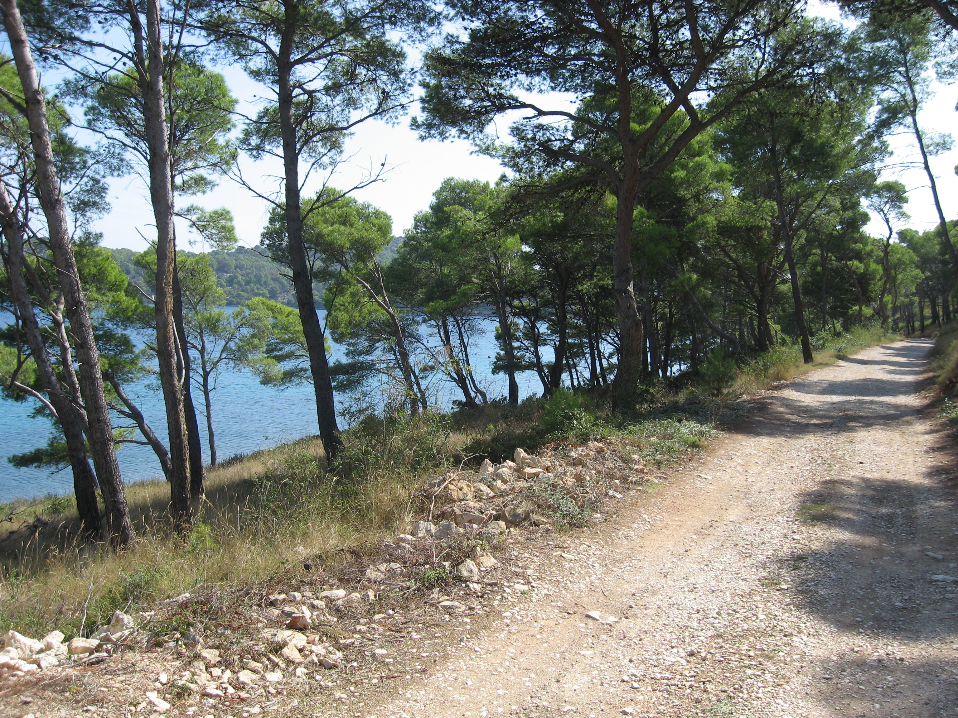 Telascica Nature Park on Island Dugi Otok, Croatia